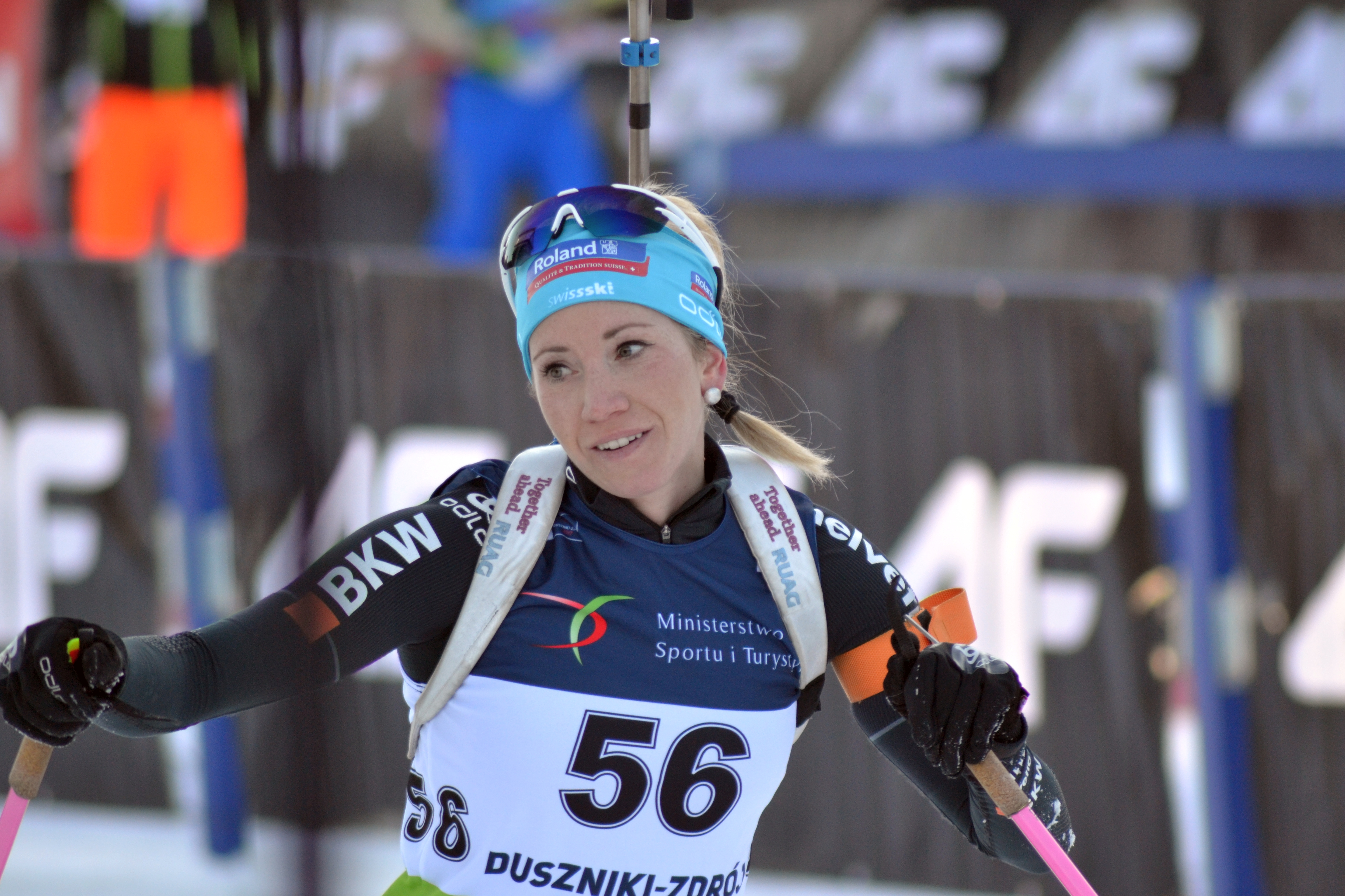 Open European Championships Biathlon 2017, Sprint Women's race, held on January 27th.